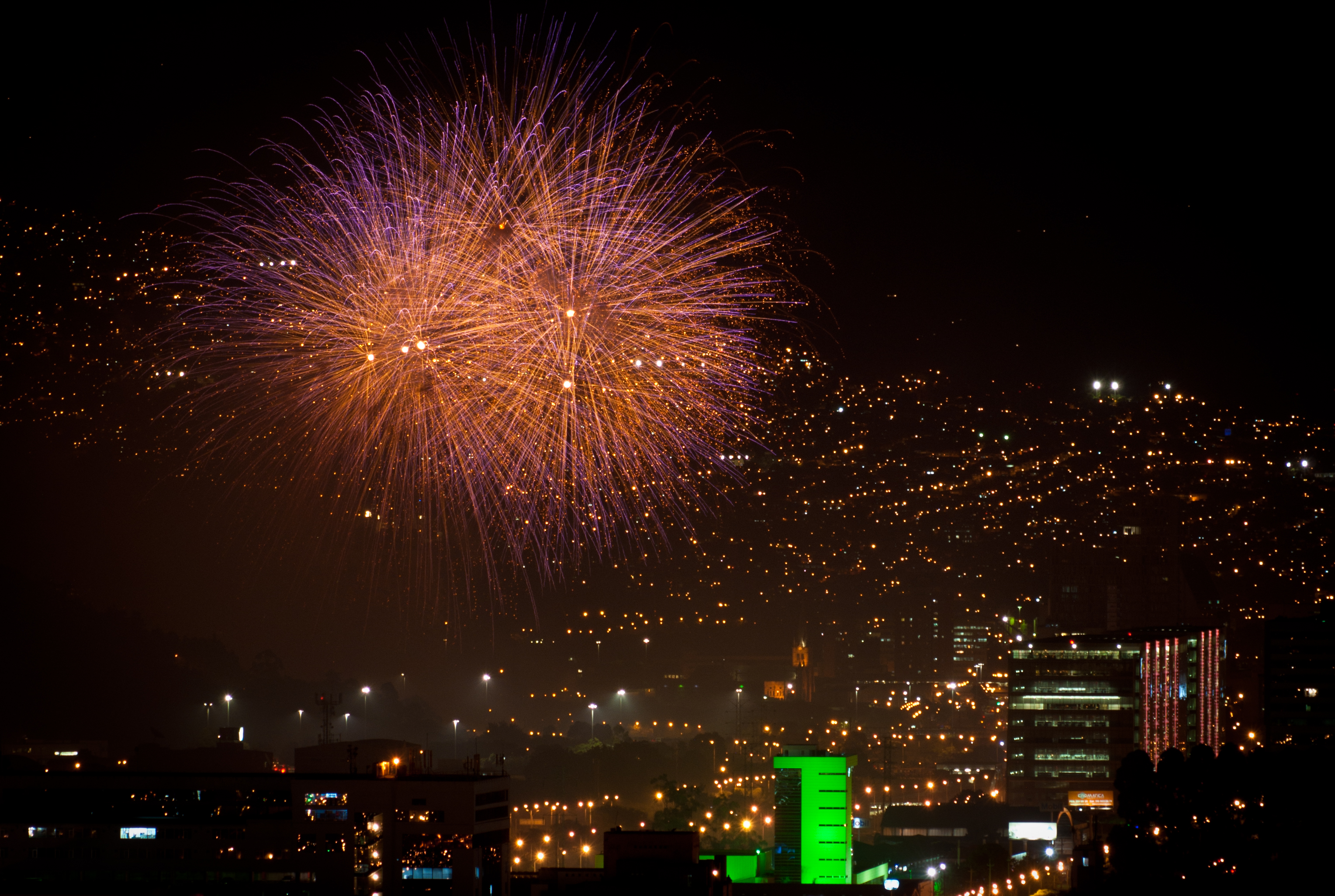 Fireworks in Medellín, as part of Colombia Bicentennial, at night of July 20th, 2010.